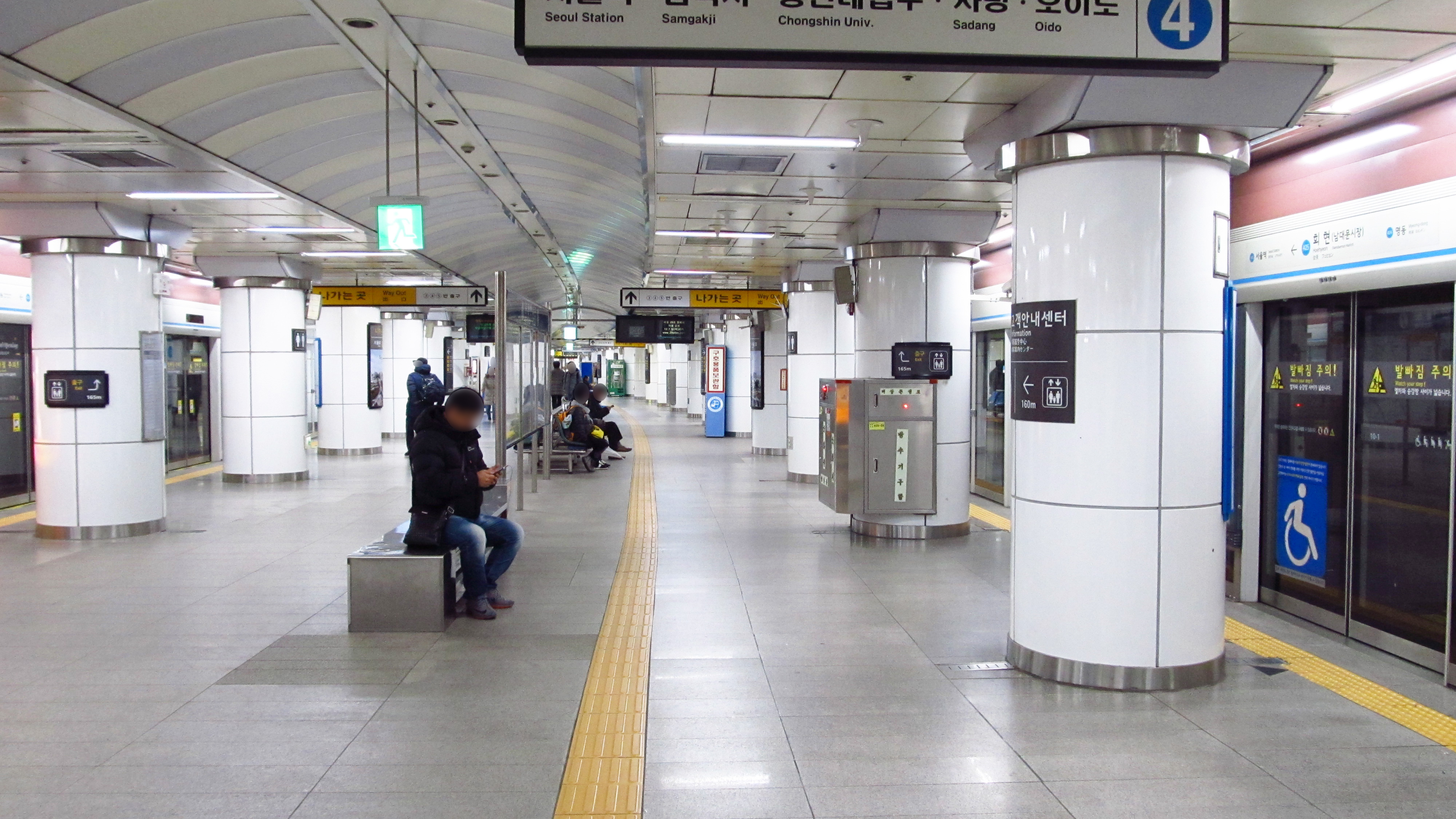 The platform at Hoehyeon Station on Seoul Subway Line 4 in Jung-gu, Seoul, Republic of Korea(South Korea)